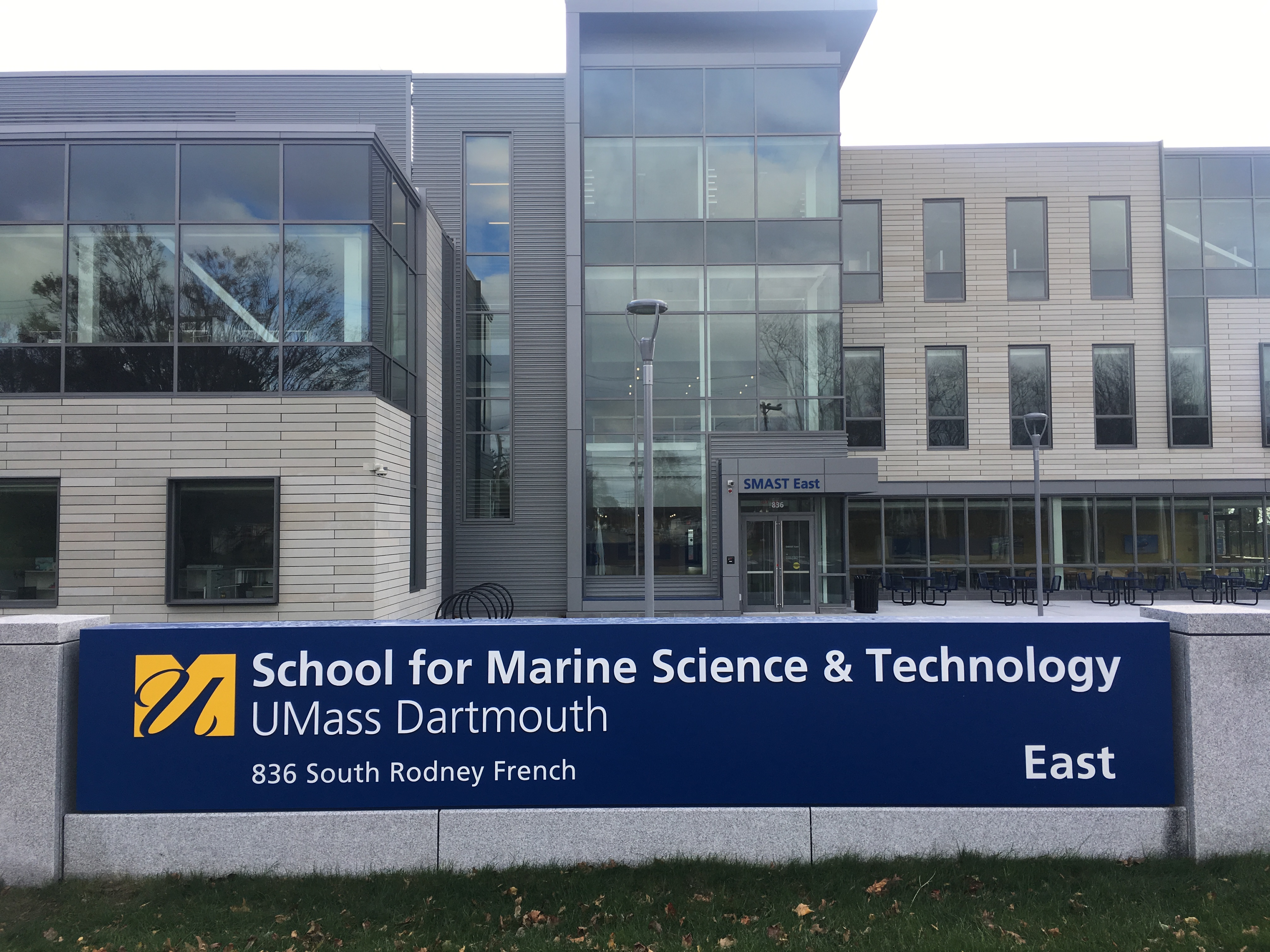 Central entrance at UMass Dartmouth SMAST campus in New Bedford.